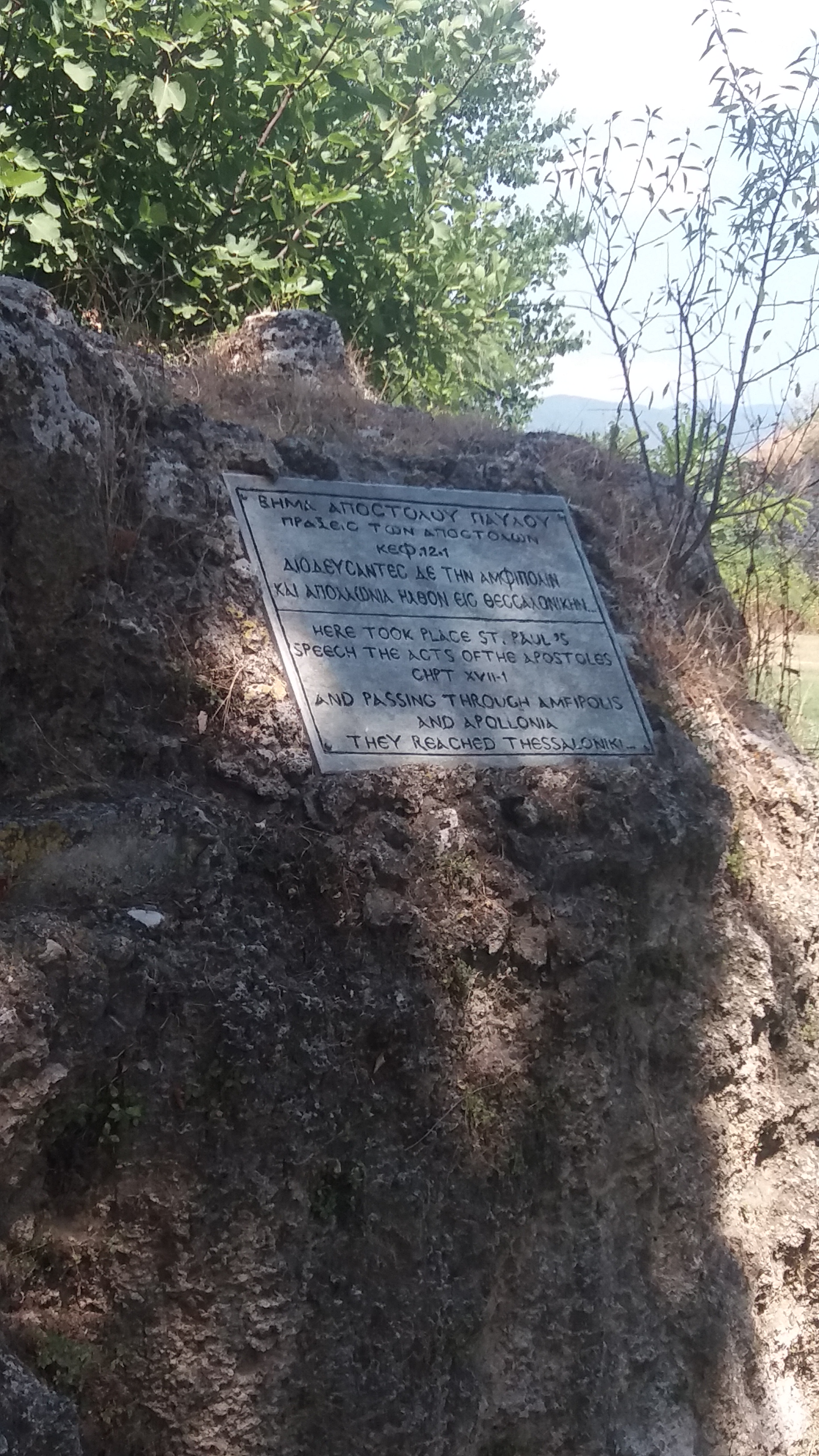 The spot where Apostle Paul preached in Apollonia, lake Volvi, Greece